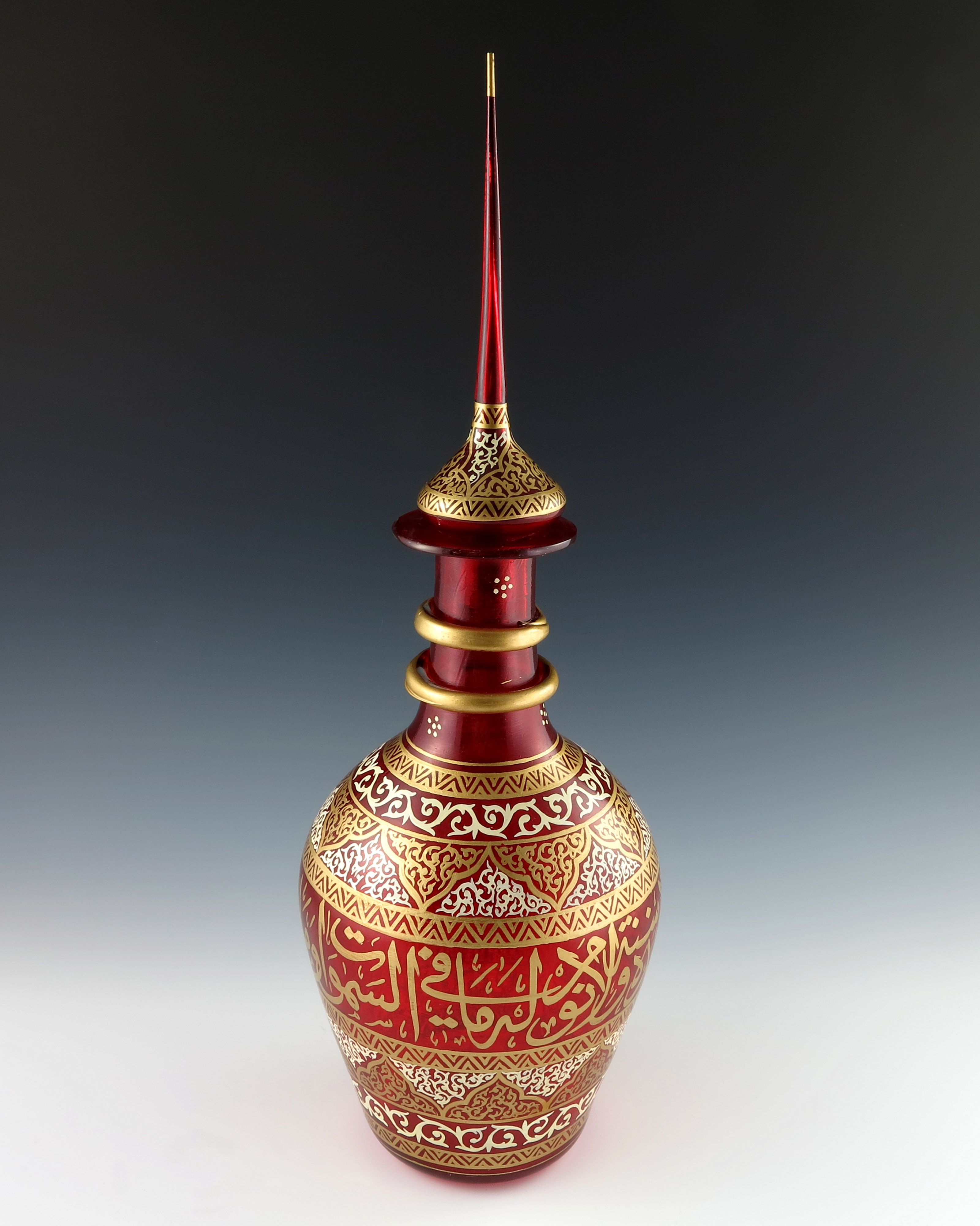 A red glass decanter with gold and white painted design of floral scroll work and gold painted rings around the neck of the bottle. The red glass spire stopper features a similar scroll design. Gift of Abdul Halim Khaddam, Deputy Prime Minister of Foreign Affairs, Syria.